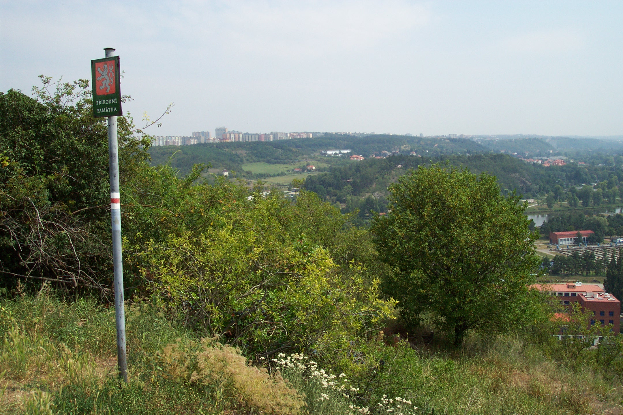 A wiev on Bohnice from Babahelp